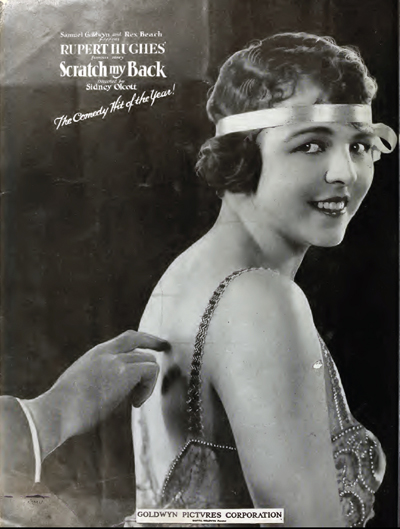 Adverstising of the American comedy film Scratch My Back (1920) with Helene Chadwick, published by The Film Daily, 1920 June 20.